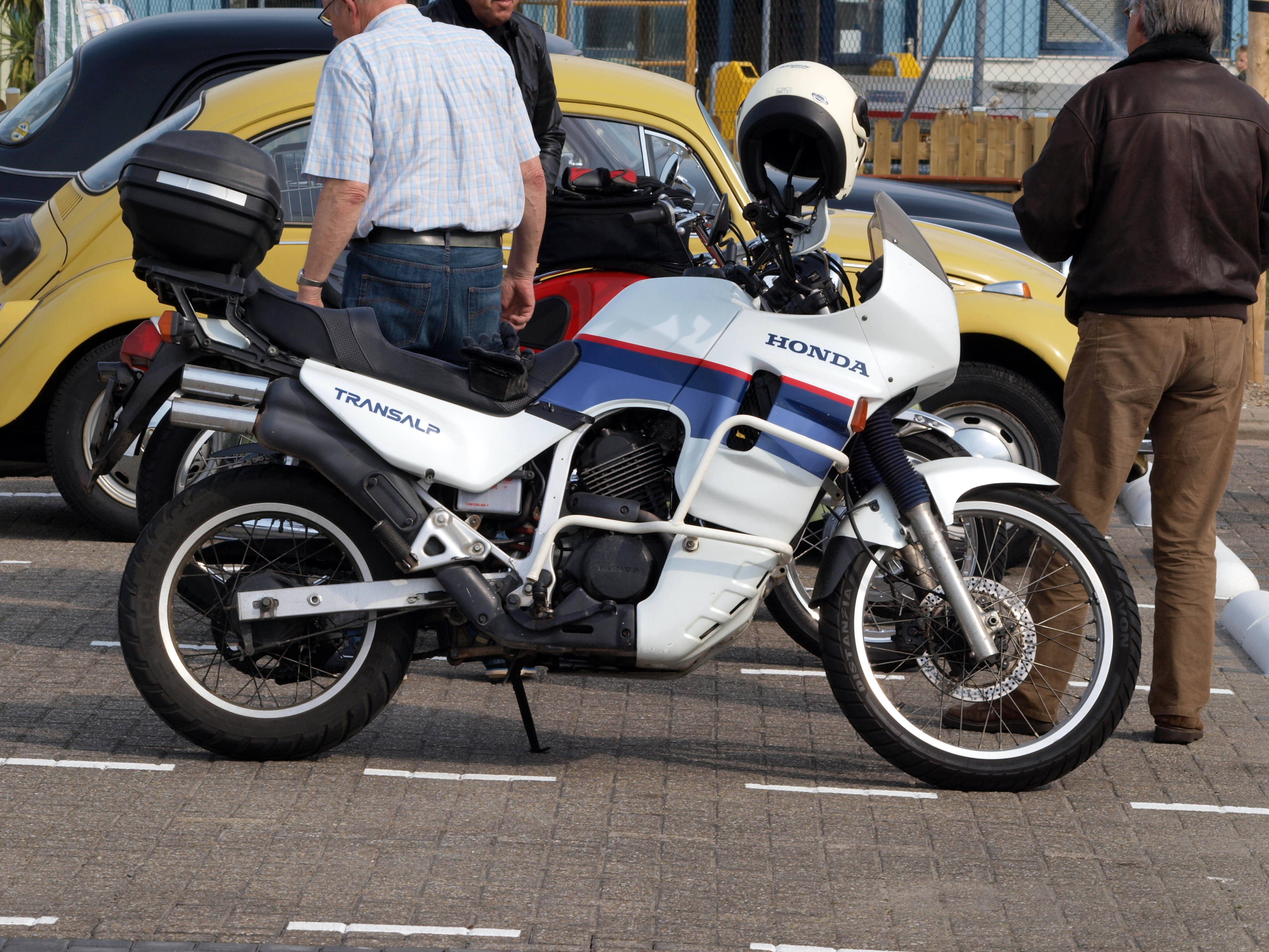 Cars and motorcycles photographed at the Voorschotense Oldtimer Vereniging Show, Valkenburgse meer, The Netherlands. OLYMPUS DIGITAL CAMERA